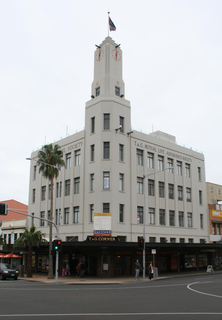 T & G Building - Geelong, Victoria, Australia